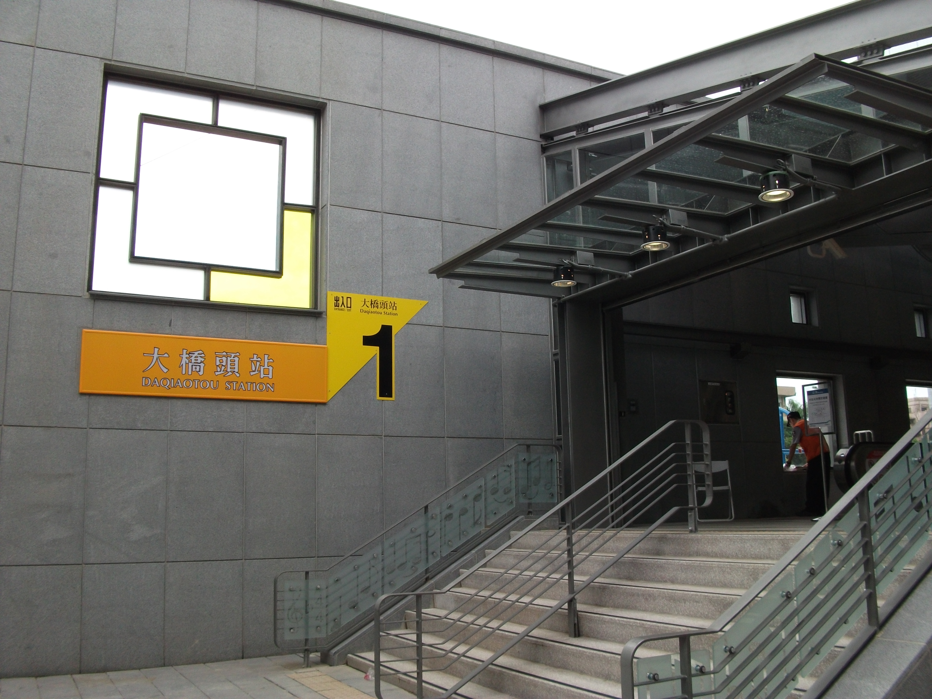 Taipei Metro Orange Line Daqiaotou Station entrance 1